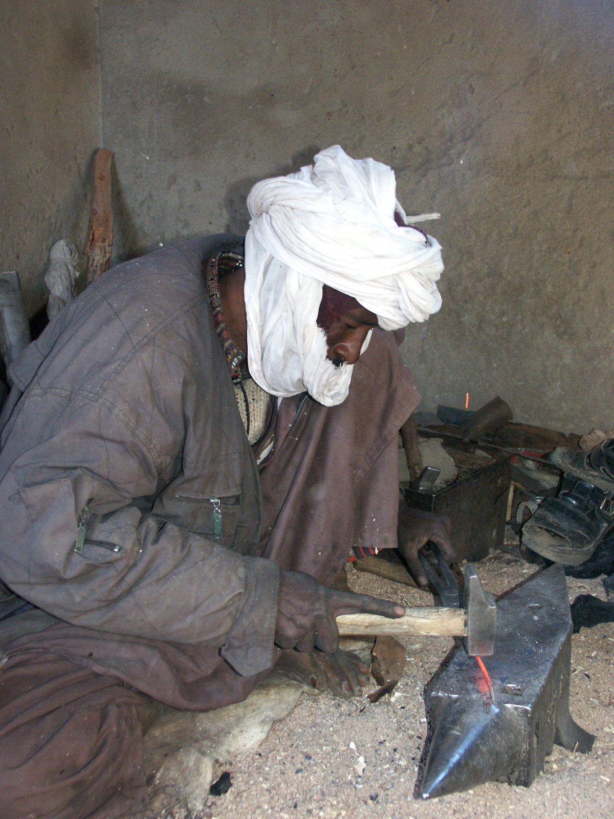 Touareg blacksmith in the Hoggar (Algeria).